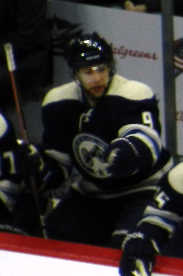 Colton Gillies playing for the Columbus Blue Jackets in 2012